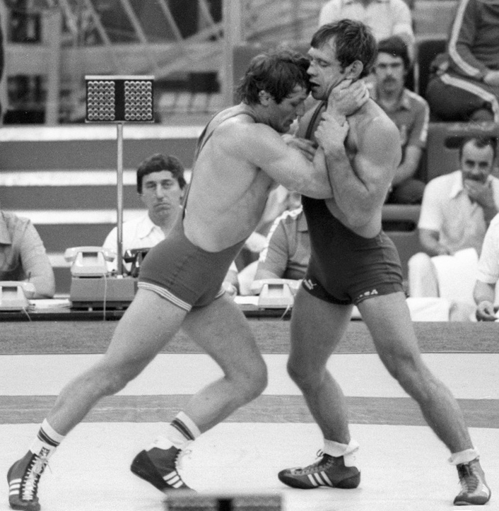 “Greco-Roman wrestlers Ferenc Kocsis and Anatoly Bykov”. Greco-Roman wrestlers Ferenc Kocsis of Hungary, left, and Soviet Anatoly Bykov during the finals at the 22nd Olympics in Moscow, 1980.